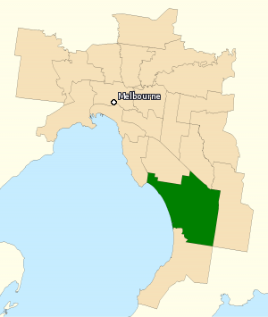 This image incorporates data that is: © Commonwealth of Australia (Australian Electoral Commission) 2009 Division of Isaacs 2010